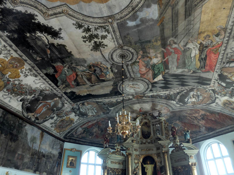 Church of the Sacred Heart in Stegna interior